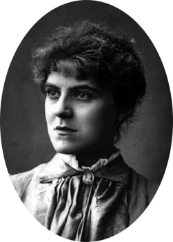 Photograph of Janet Achurch (1864–1916)